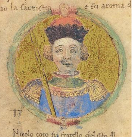 Nicolo II d'Este